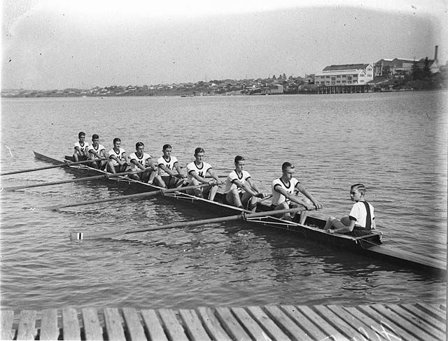 Image title:Newington's eight-oar crew Description: Students of Newington College rowing in 1932.